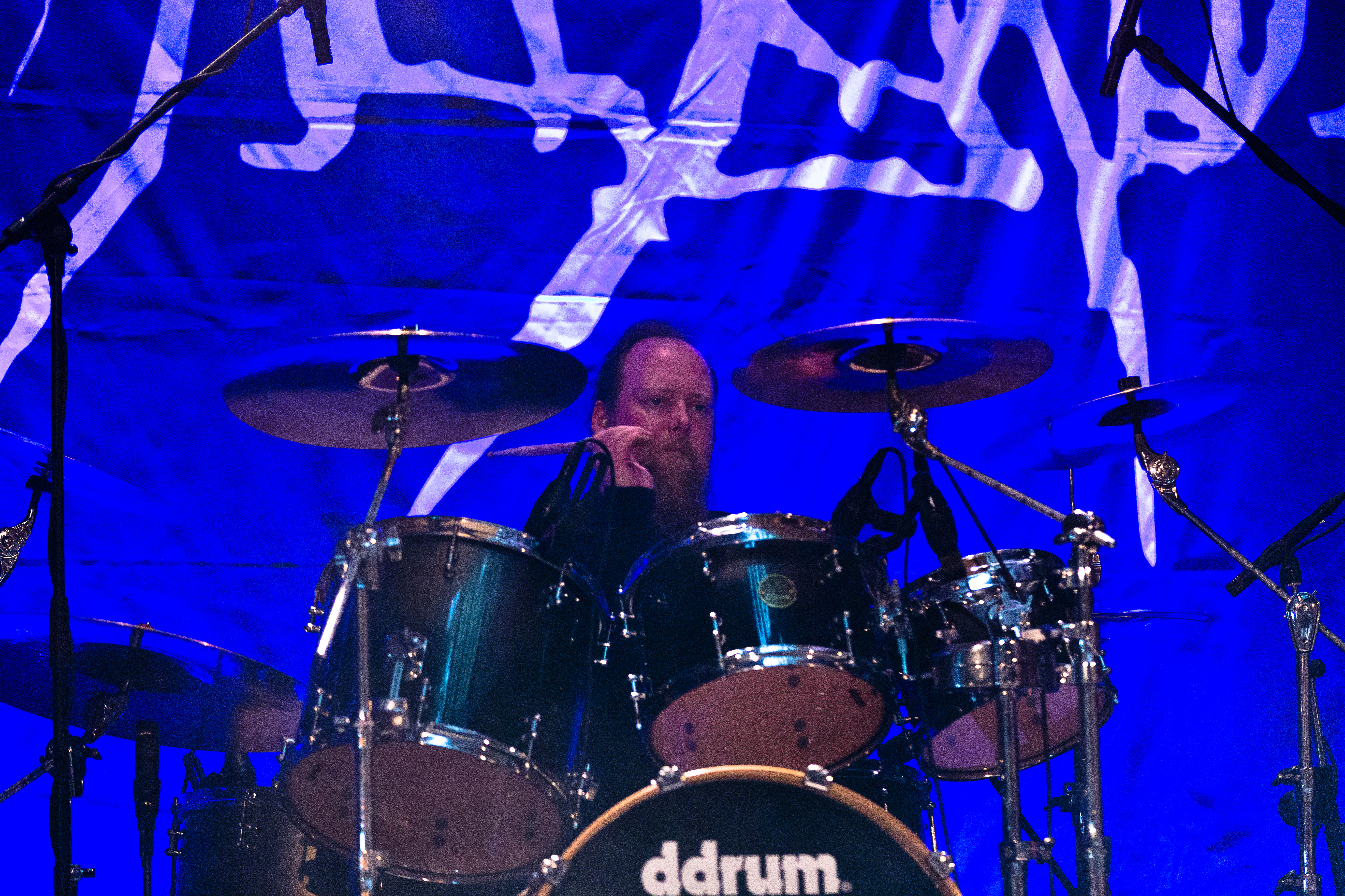 The British doom metal band My Dying Bride at the 25. Wave-Gotik-Treffen 2016 in Leipzig/Germany.